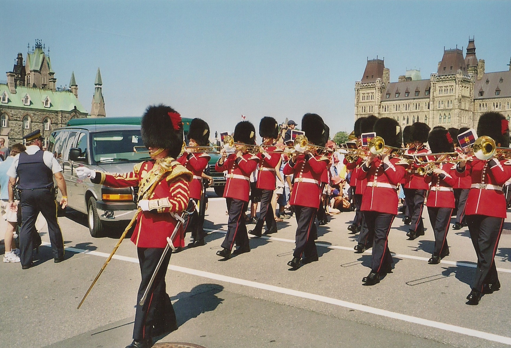 The Ceremonial Guard in front of the Canadian Parliament in Ottawa, Ontario (Canada).